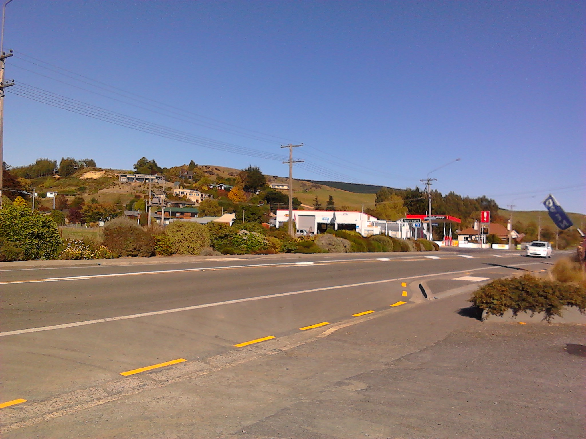 New Zealand State Highway 1 looking south in the Otago town of Waihola.